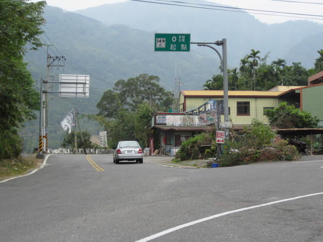 The beginning of county highway No.149B. It's at Jhushan Township,Nantou County,Taiwan.